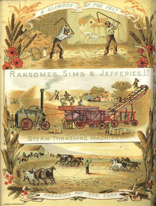 Ransomes, Sims & Jefferies Ltd. advertising poster, 1875